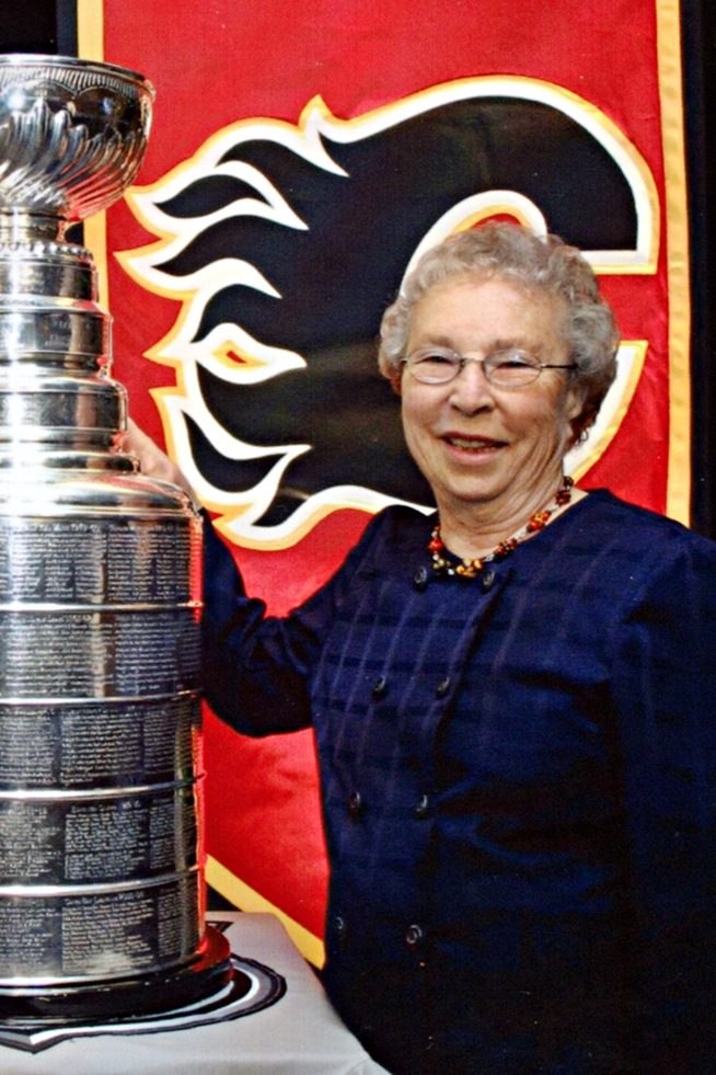 Sonia Scurfield poses with the Stanley Cup in February 2006